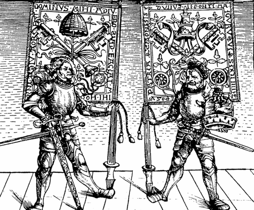 Heralds of Pope Julius II with a Blessed Sword and Hat